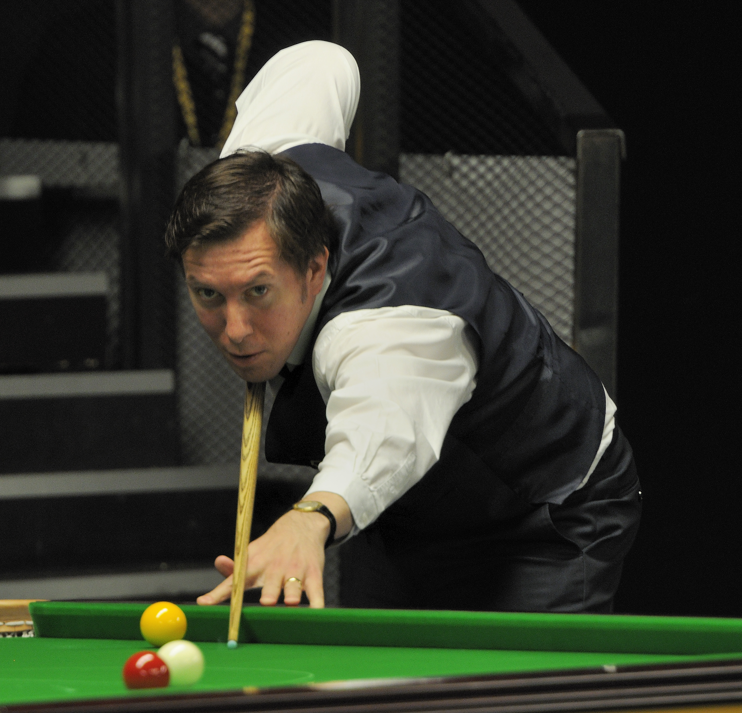 Picture taken in Berlin during the Snooker German Masters in 2013. Dominic Dale.